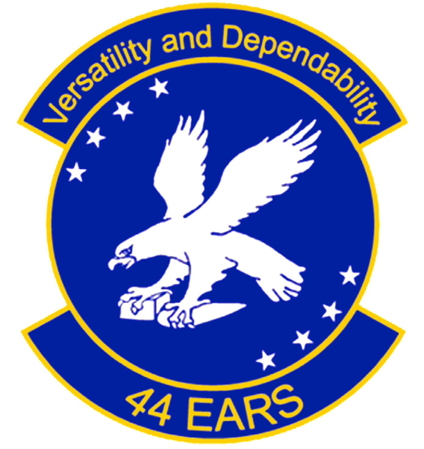 44th Expeditionary Air Refueling Squadron emblem